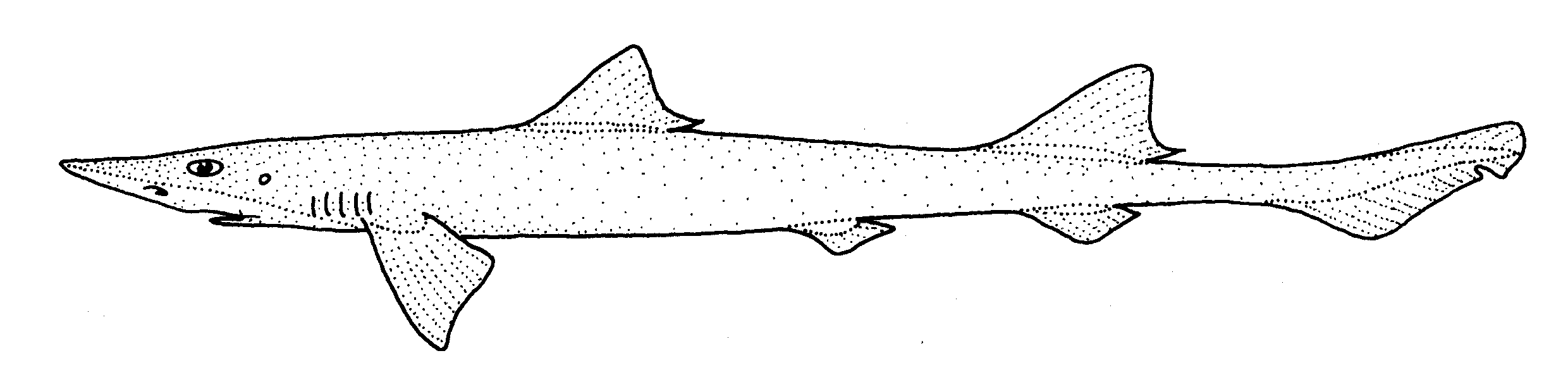 Gollum attenuatus (Slender smooth-hound)